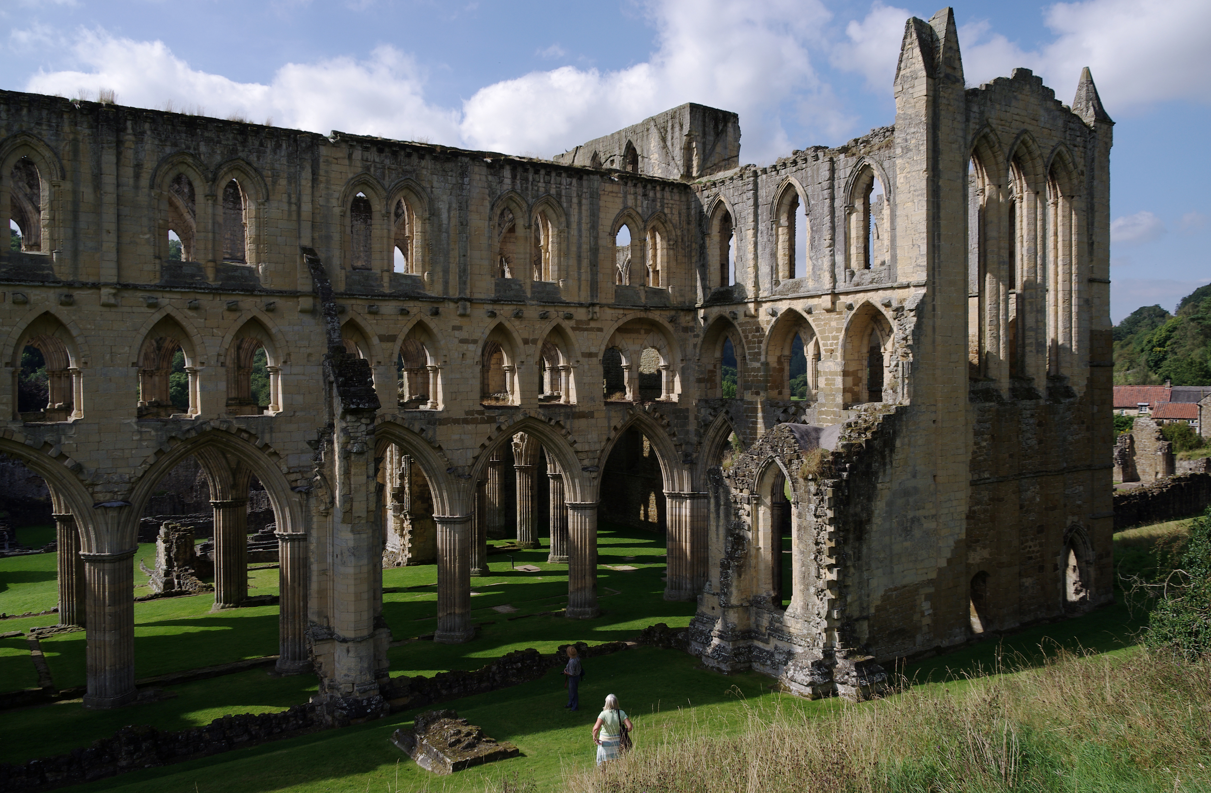 Rievaulx Abbey, Yorkshire.